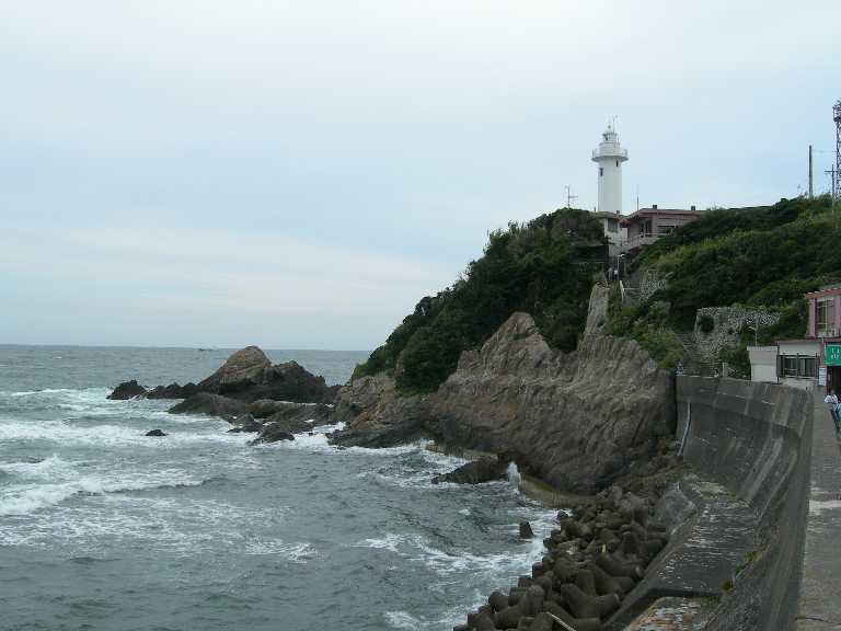 Daiozaki-todai is a lighthouse at Shima city, Mie prefecture Japan.